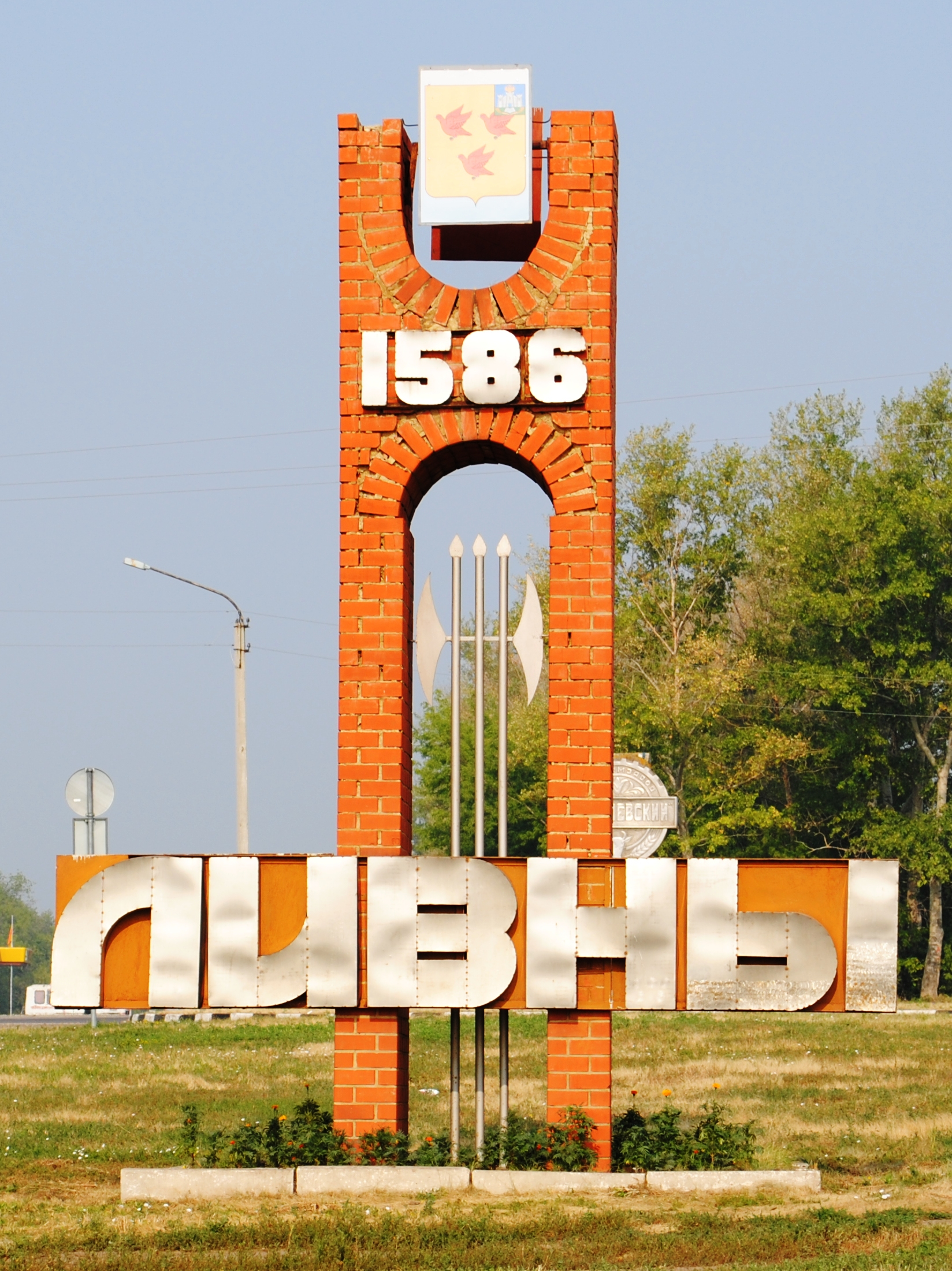 Livny